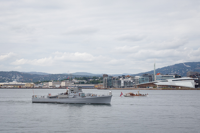 Ships participating in Kyststevnet 2014 in Oslo, Norway